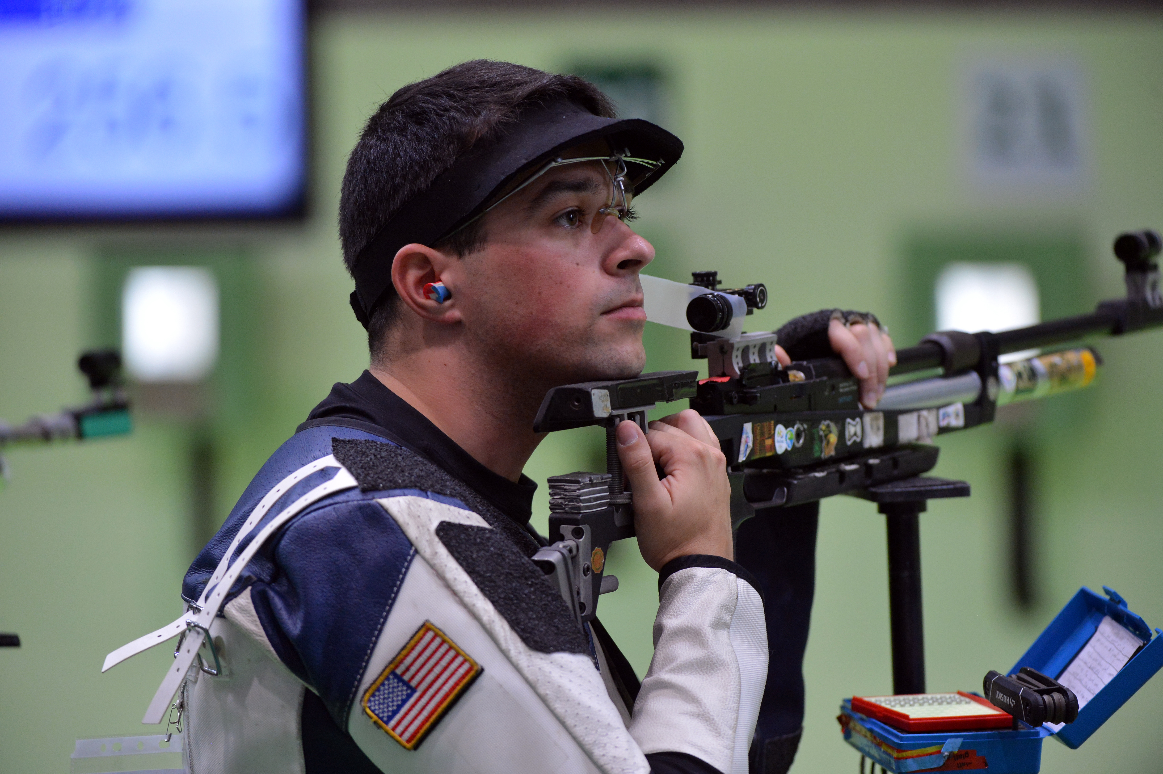 Spc. Daniel Lowe of the U.S. Army Marksmanship Unit shoots to a 34th-place finish in the men's 10-meter air rifle competition Aug. 8 at the Olympic Shooting Center in Rio de Janeiro. U.S. Army photo by Tim Hipps, IMCOM Public Affairs